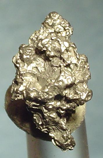 Platinum Locality: Fox Gulch, Salmon River - Red Mountain District, Goodnews Bay, Bethel Borough, Alaska, USA (Locality at ) Size: 1.4 x 0.8 x 0.8 cm. A very rare and excellent native platinum nugget from an uncommon Alaskan locality - Fox Gulch, Goodnews Bay. The lustrous, very lightly rounded, 3-dimensional, sculptural nugget is composed of a multitude of tiny, hoppered, crudely cubic platinum crystals. This piece looks like a tiny, 3-sided, platinum Christmas tree with ornaments and a bent trunk. Rarely availableon the market. Weighs 15.76 carats or just over 3 grams.